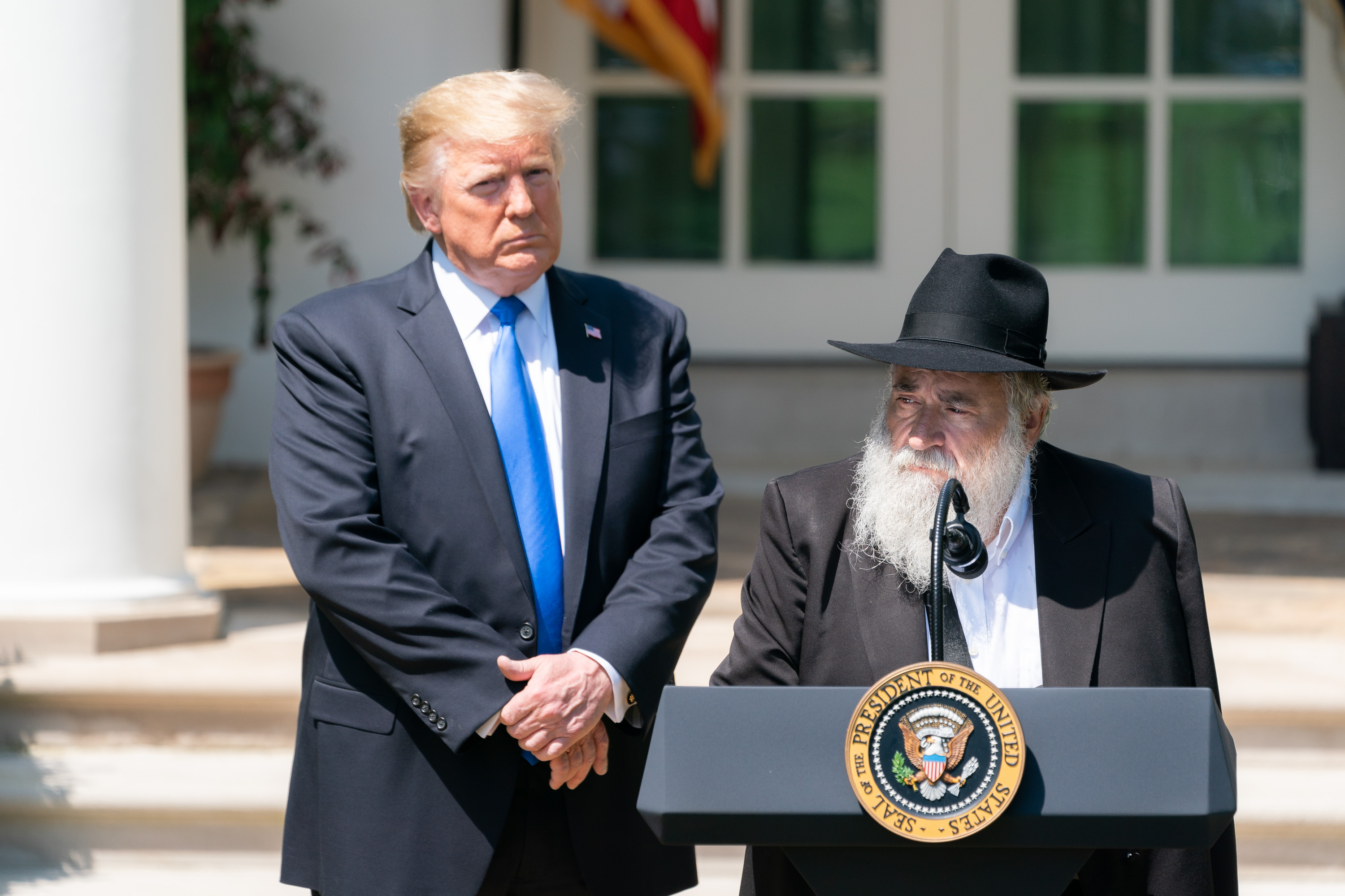 President Donald J. Trump listens as Rabbi Yisroel Goldstein of the Chabad of Poway, Calif., speaks at the National Day of Prayer Service Thursday, May 2, 2019, in the Rose Garden of the White House. (Official White House Photo by Tia Dufour)